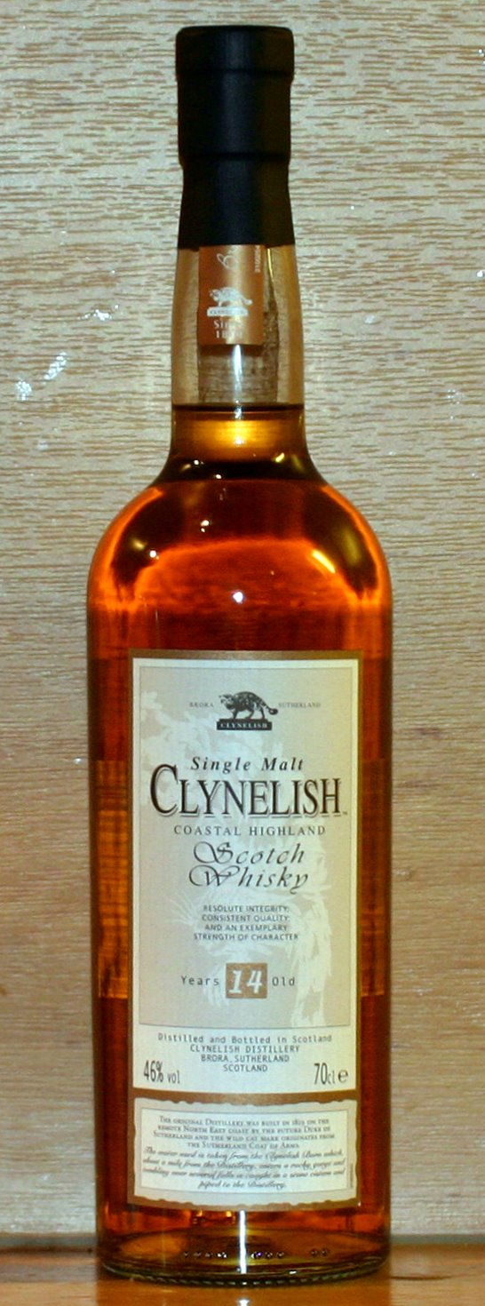 Clynelish Single Malt Scotch Whisky 14 jaar oud